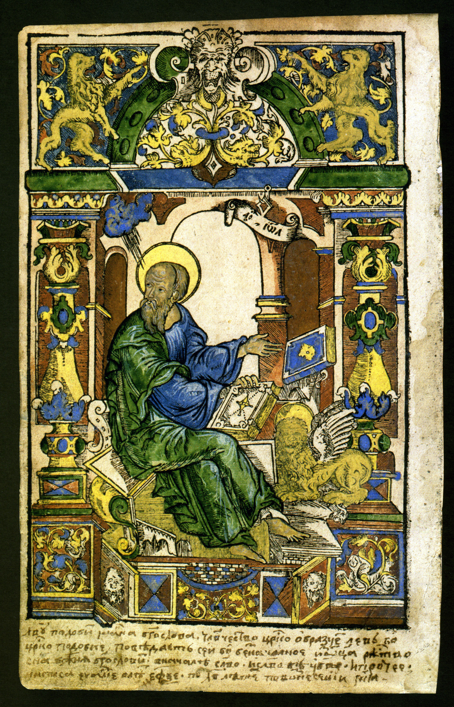 from an illuminated bible from Wilno (Vilnius)